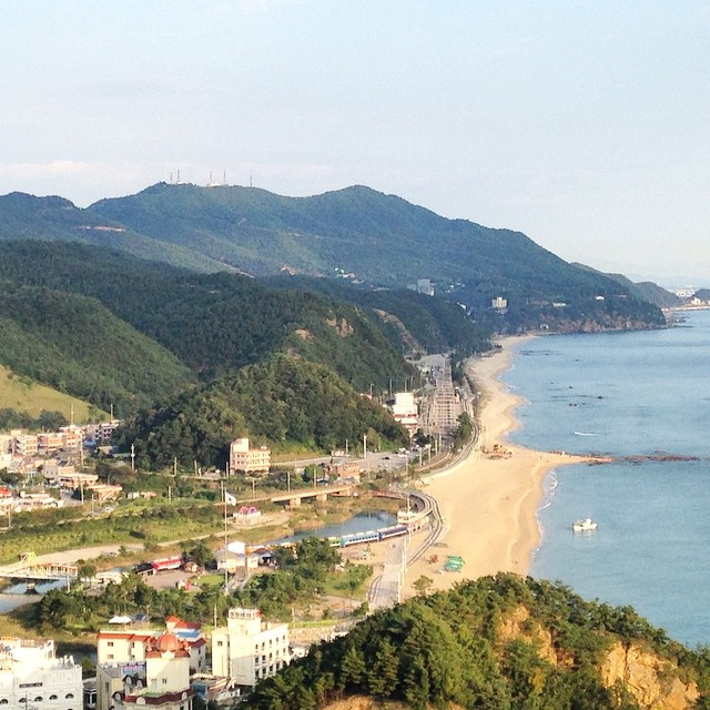 Overlooking Jeongdongjin, South Korea, view from Sun Cruise Hotel and Resort